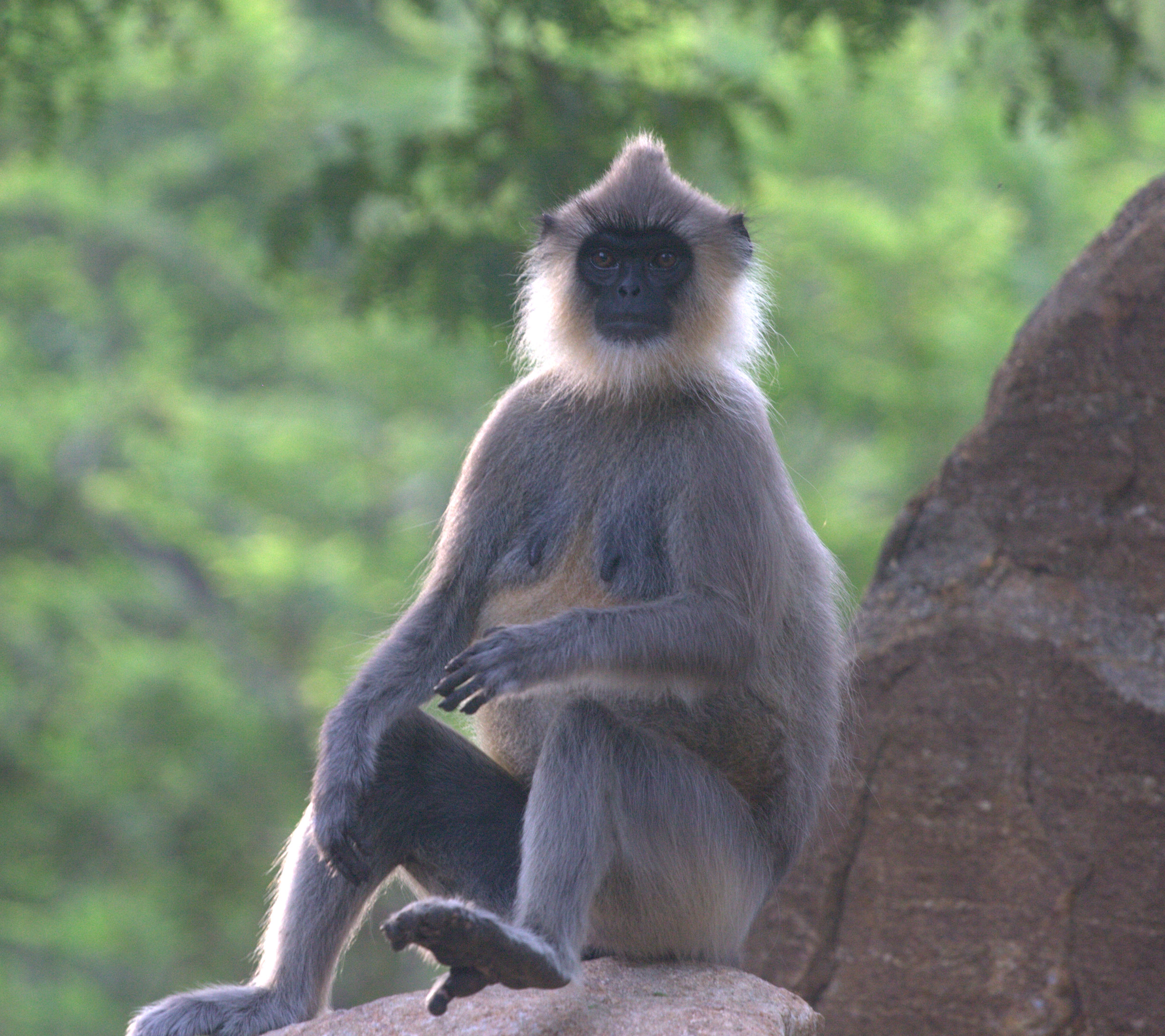 Semnopithecus priam